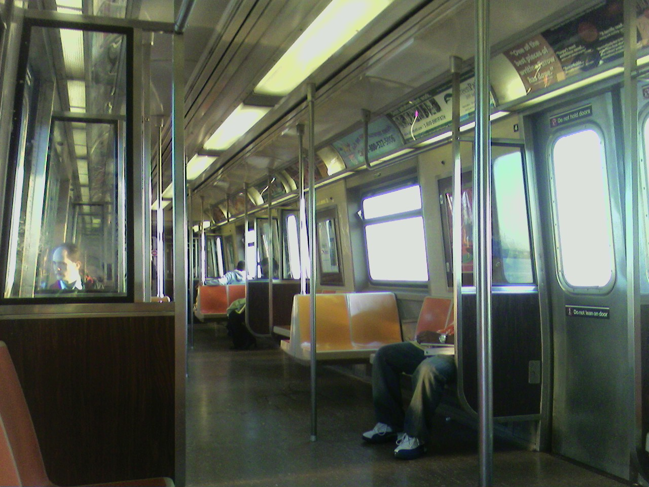 The interior of the R44 subway car.